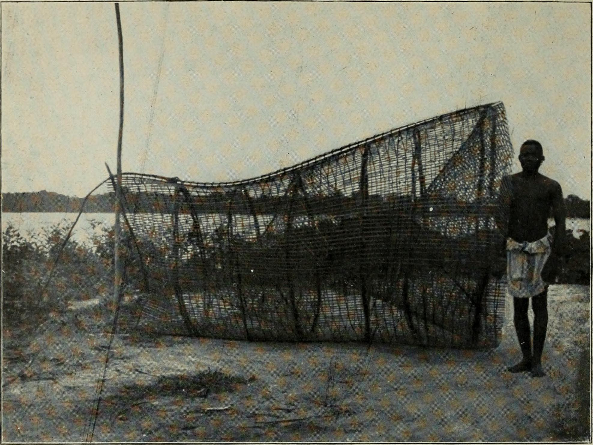 Banziri fishing basket Title: From the Congo to the Niger and the Nile : an account of The German Central African expedition of 1910-1911 Year: 1913 (1910s) Authors: Adolf Friedrich, Duke of Mecklenburg-Schwerin, 1873-1969 Deutsche Zentral-Afrika-expedition, 1910-1911 Subjects: Publisher: London : Duckworth Text Appearing After Image: 166. Banziri fishing basket.